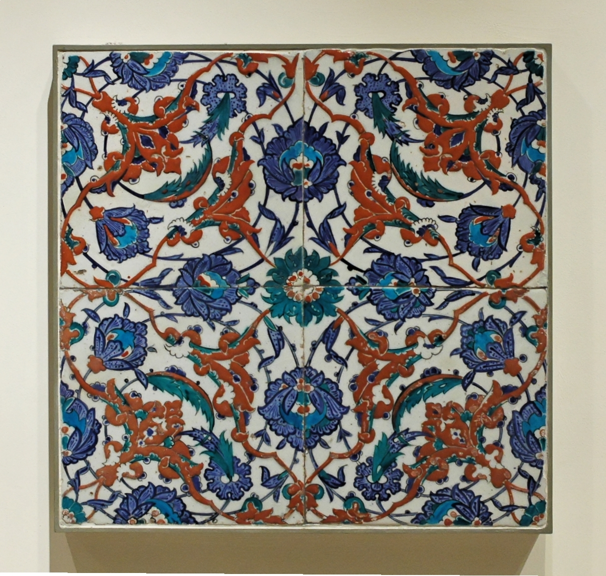 Tile panel with flowers. Fritware (stonepaste), transparent glaze, painted underglaze on slip. Turkey: Iznik, second half of the 16th century.